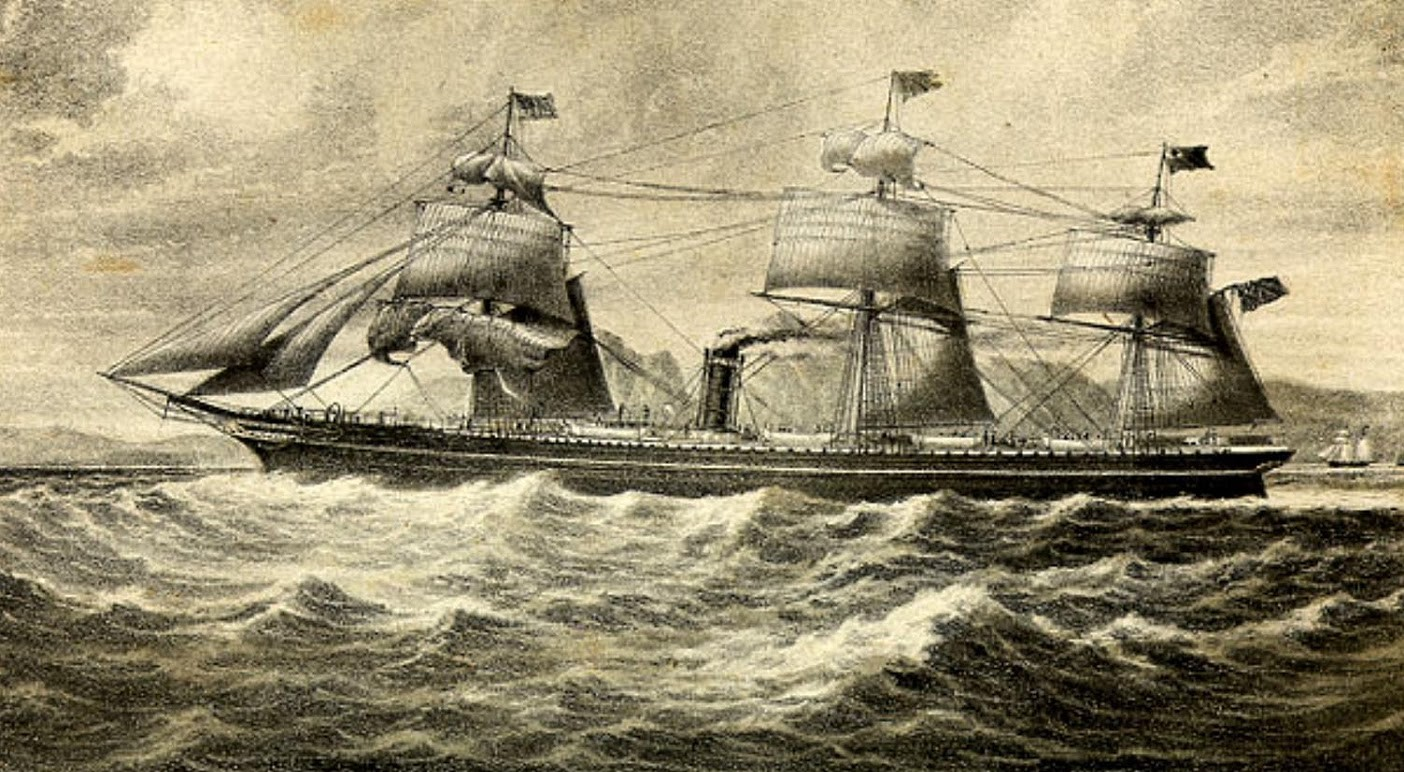 Title: Inman Line. Liverpool, New York & Philadelphia Steamship Co. Alternative Title: Union Pacific Railroad illustrations, [page 44] Creator: Unknown Date: 1869 Place: New York, New York Part Of: F594 .U5 1869/mode/exact Page Number: p. 44 Physical Description: 1 photographic print: albumen; 11 x 17 cm on 33 x 48 cm page File: vault_folio_2_f594_u5_1869_44_opt.jpg Rights: Please cite DeGolyer Library, Southern Methodist University when using this file. A high-resolution version of this file may be obtained for a fee. For details see the web page. For other information, For more information and to view the image in high resolution, View U.S. West: Photographs, Manuscripts, and Imprints